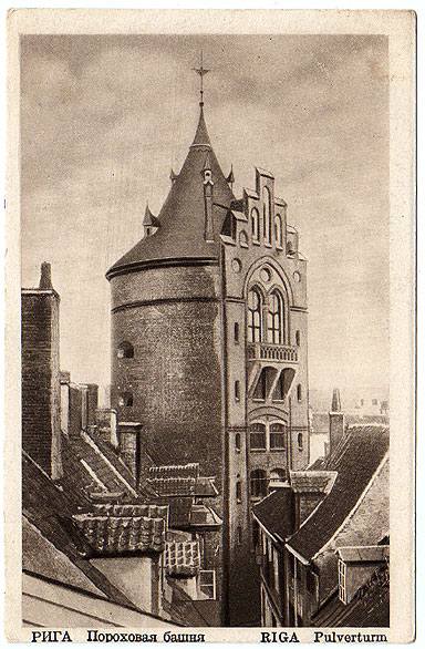 The Powder Tower, Riga, Latvia